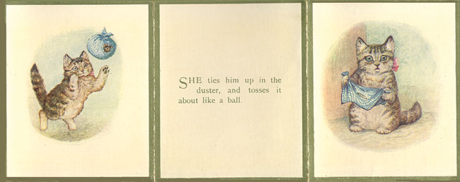 Photo of two illustration and a page of text from the original panoramic version of The Story of Miss Moppet